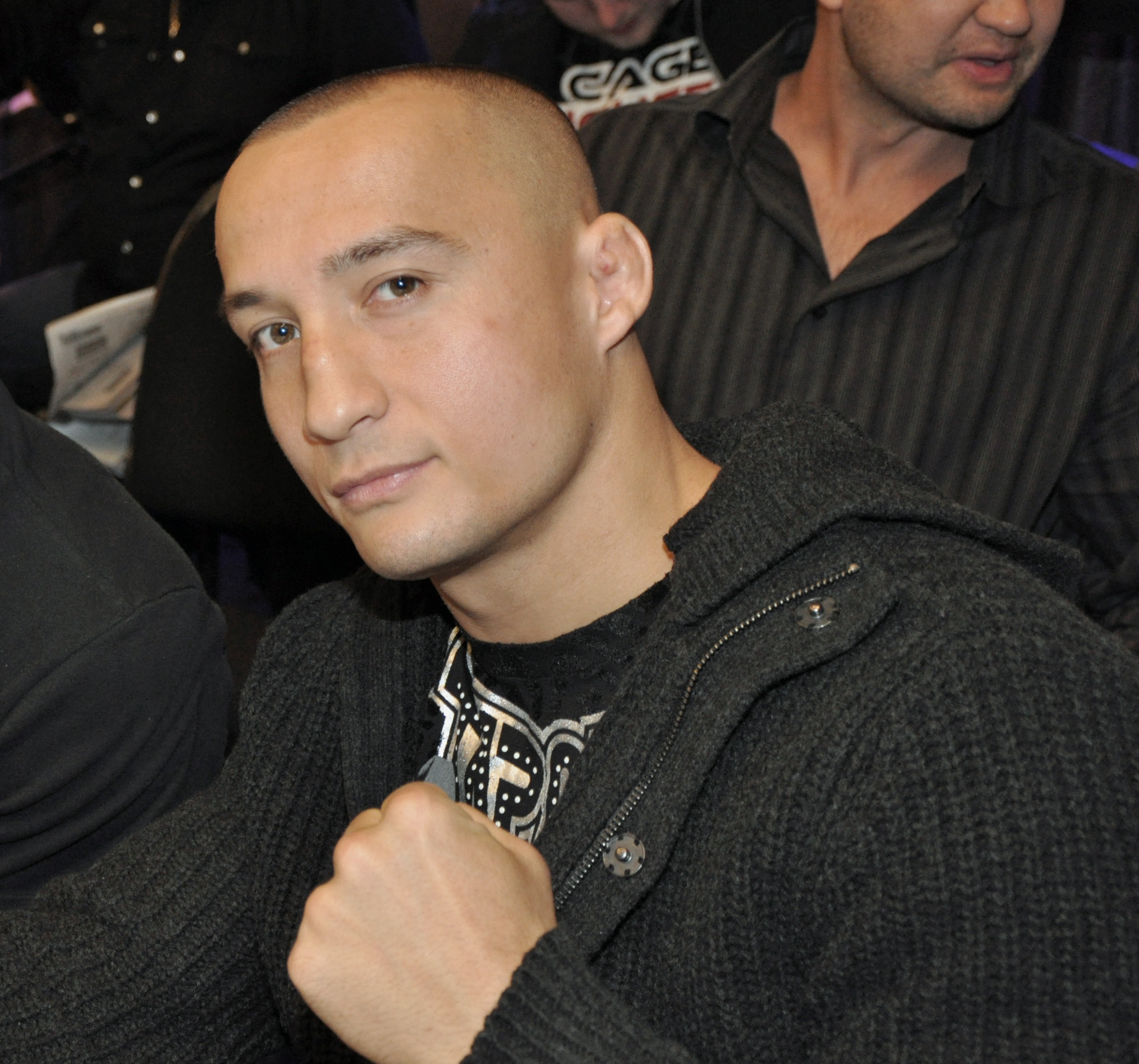 Blake Lirette and Denis Kang at the Honour Combat Championships in the Edgewater Casino